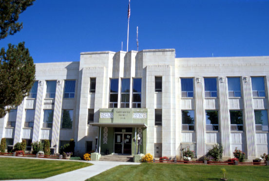 Washington County Courthouse, located along East Main Street in Weiser, Idaho, United States, built in 1913.